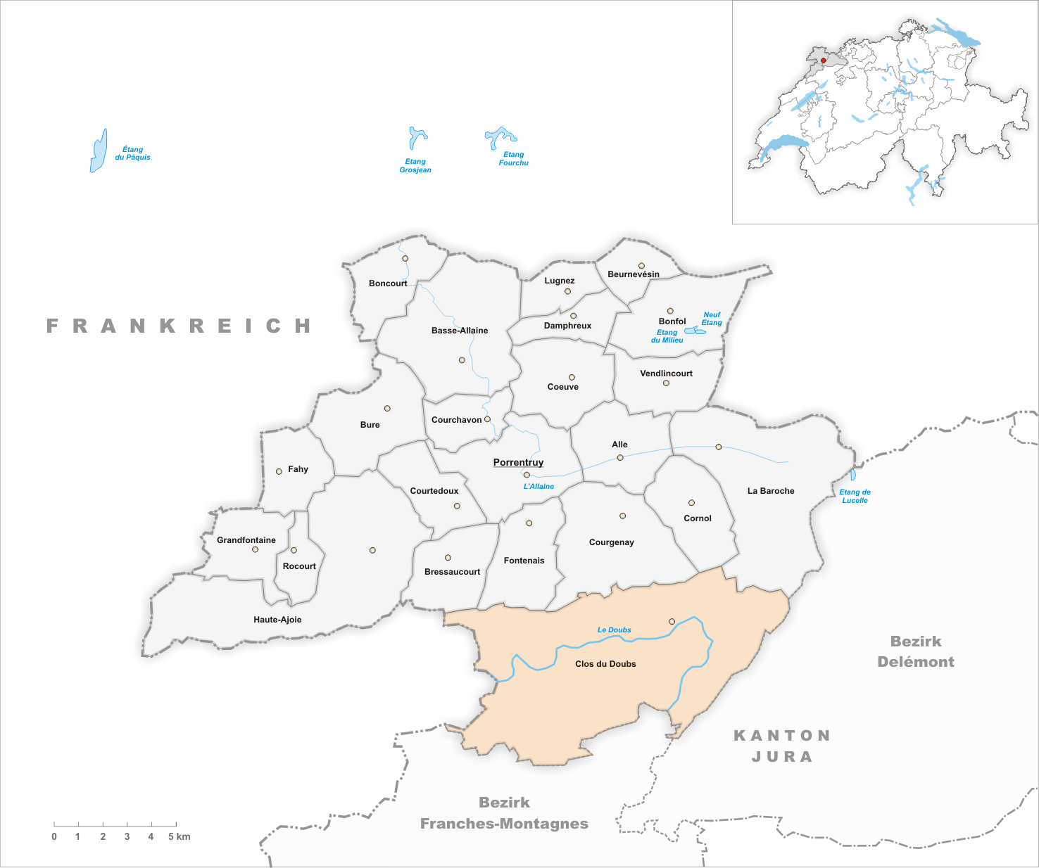 Municipality Clos du Doubs